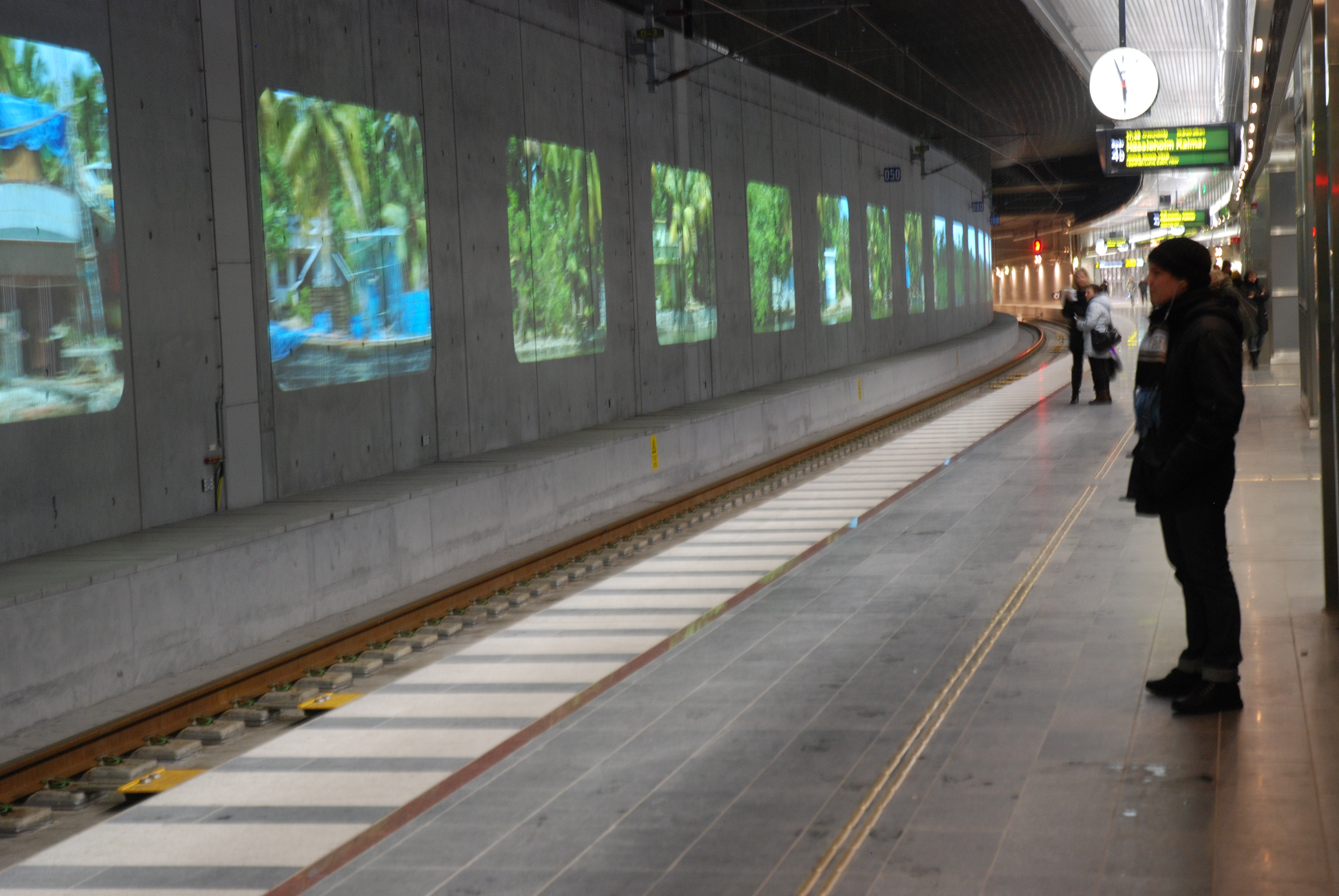 Video installation Annorstädes (en: Elsewhere. fr: Ailleurs), the Malmö Railway Station (underground platforms) in Sweden, by Tania Ruiz Gutiérrez